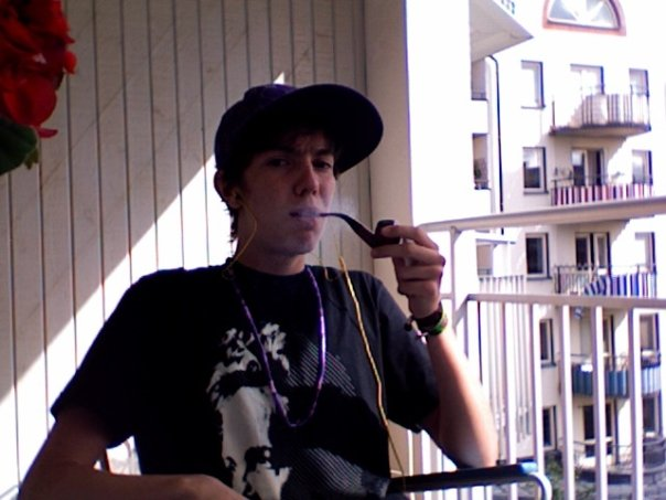 Photo by Adam Engström 2008